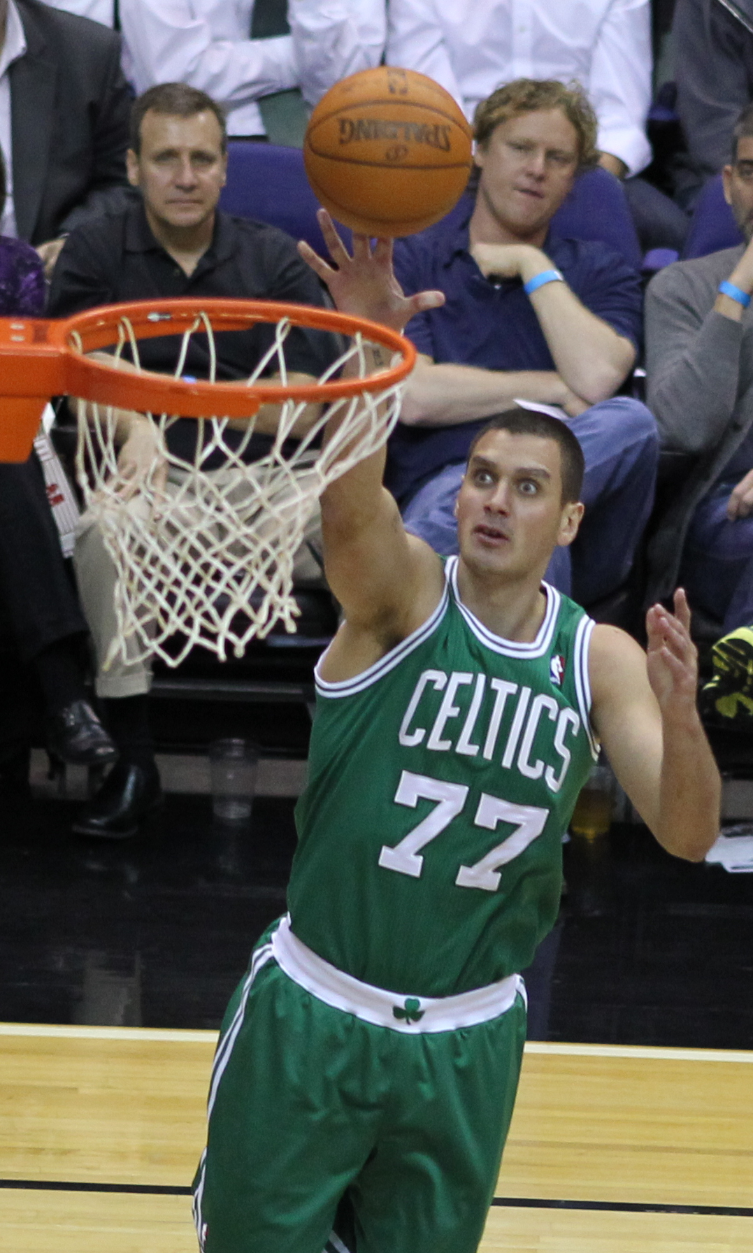 Boston Celtics v/s Washington Wizards April 11, 2011